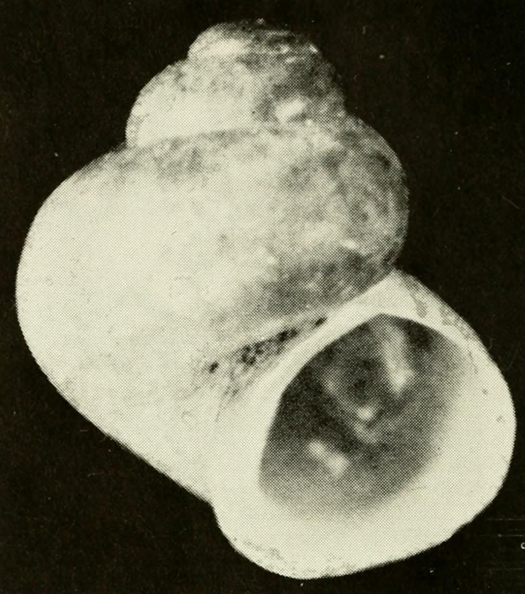 Black and white photo of apertural view of the shell of Clappia cahabensis